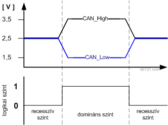 CAN bus "high speed" signals